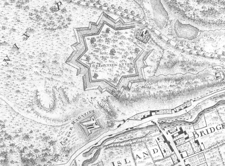 Extract from "a Survey of the City, Harbour, Bay and Environs of Dublin on the same Scale as those of London, Paris & Rome". A map of Dublin by John Rocque (1709–1762) which is dated to 1757 . This extract highlights the area of the Phoenix Park in Dublin, immediately to the north of IslandBridge. The two principle subjects of this extract are: An earthen-works star fort (labelled "The Fortification" centre/top) - This fortification was commissioned by then Lord Lieutenant of Ireland Thomas Wharton (1648-1715) and designed by Thomas Burgh (1670–1730). Construction started in 1710, but the fortification was never completed. Note the incomplete section/gap on the north east "corner". The remaining earth-works were demolished in 1837.[1] A brick and limestone bastion fort (Labelled "Powder Magazine" centre-left/bottom) - This fortification was commissioned by then Lord Lieutenant of Ireland Lionel Sackville (1688-1765) and designed by John Corneille. Construction started in 1734/1735. The resulting Magazine Fort still stands in Dublin's Phoenix Park